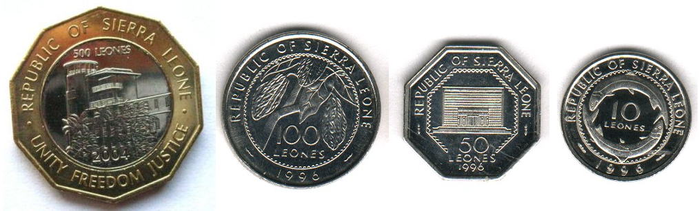 S. Leona coins